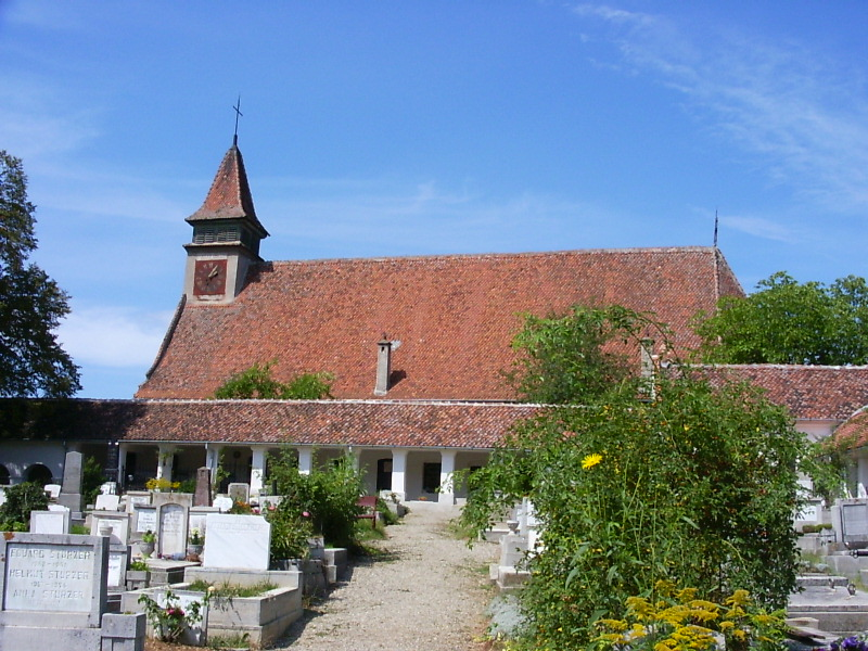 St. Martin church in Braşov/Kronstadt/Brassó